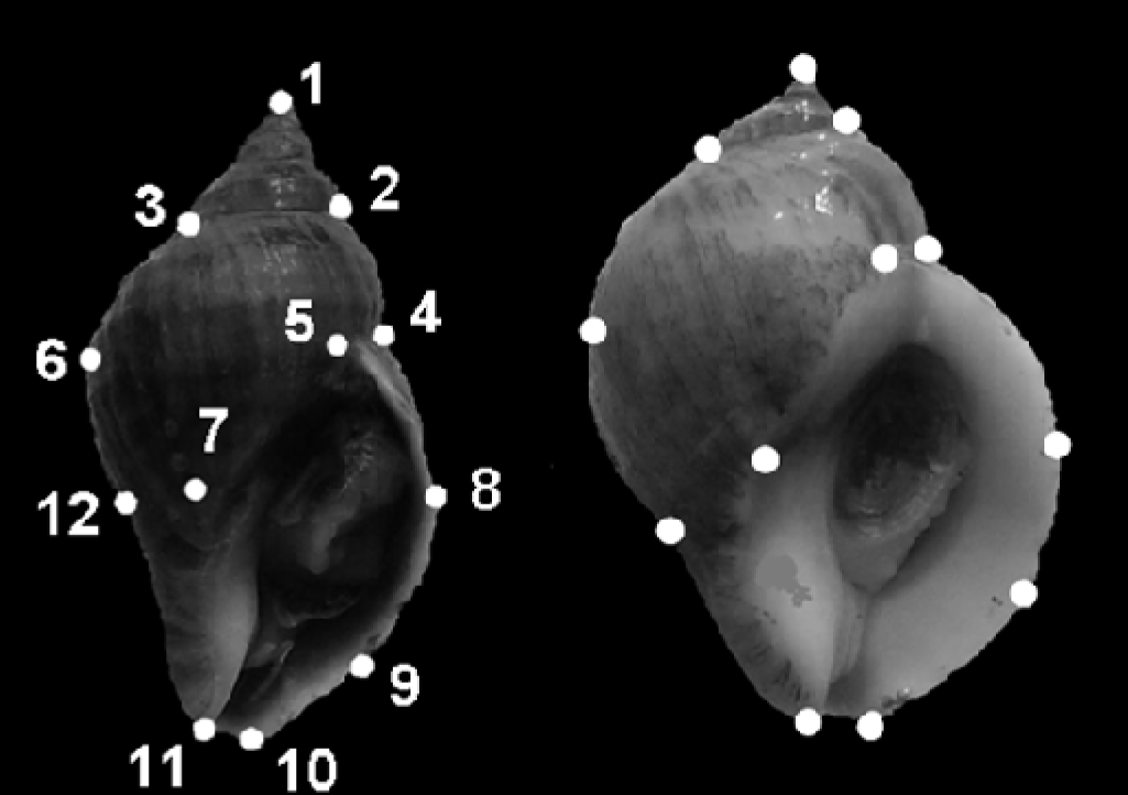 Position of landmarks (landmark points, 1-12) used for morphometric analysis of Nucella lapillus. Left shell is collected from the site relatively sheltered from wave action; right shell is collected from the site exposed to strong wave action. Shell length was represented by distance between landmarks 1 and 11.